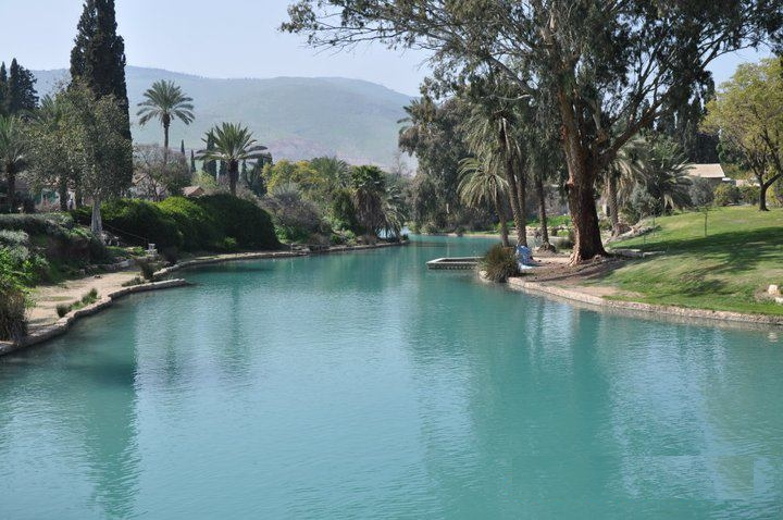 Sachne seen from Kibbutz Ramat David